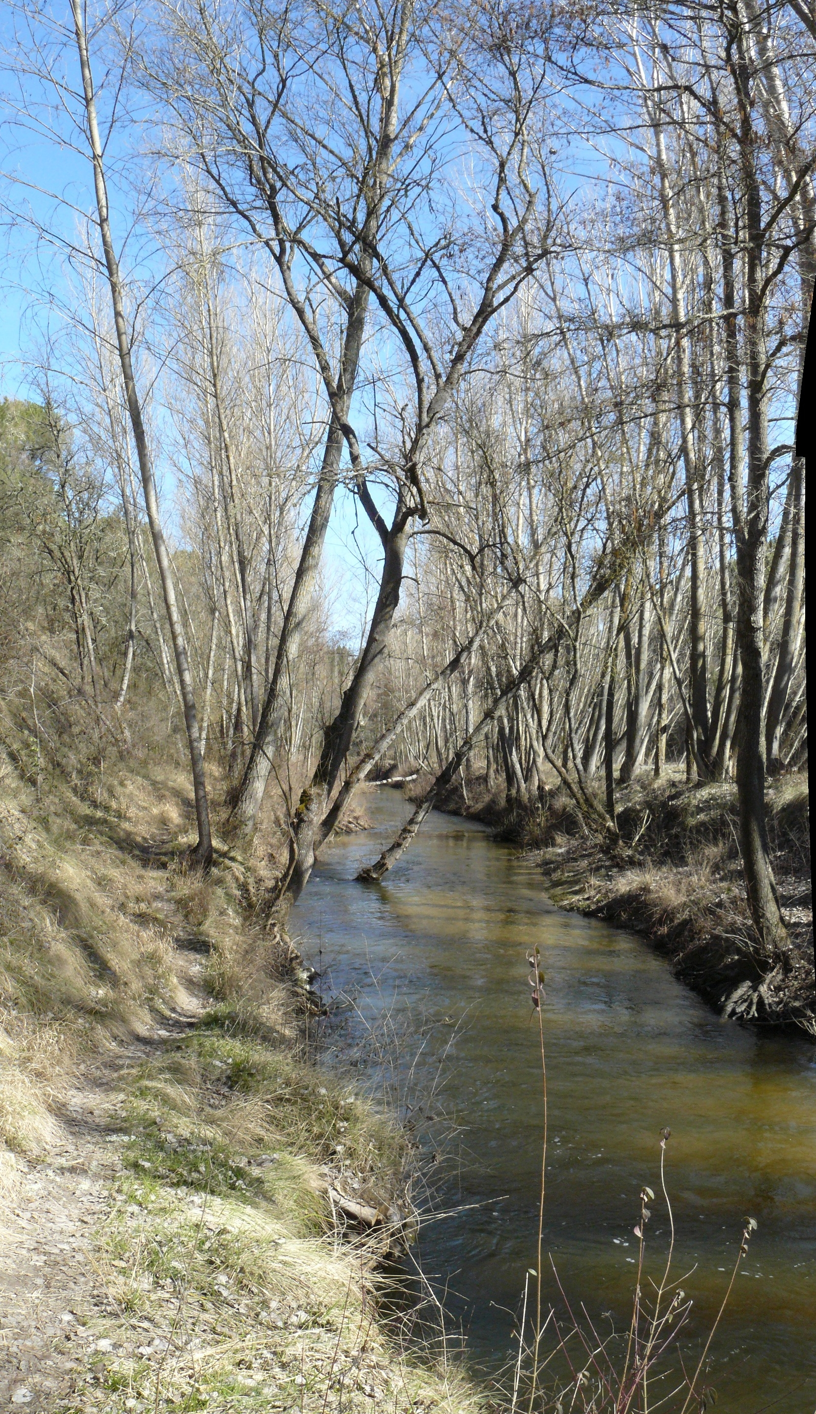 Cega River near Cuéllar (Segovia, Spain).